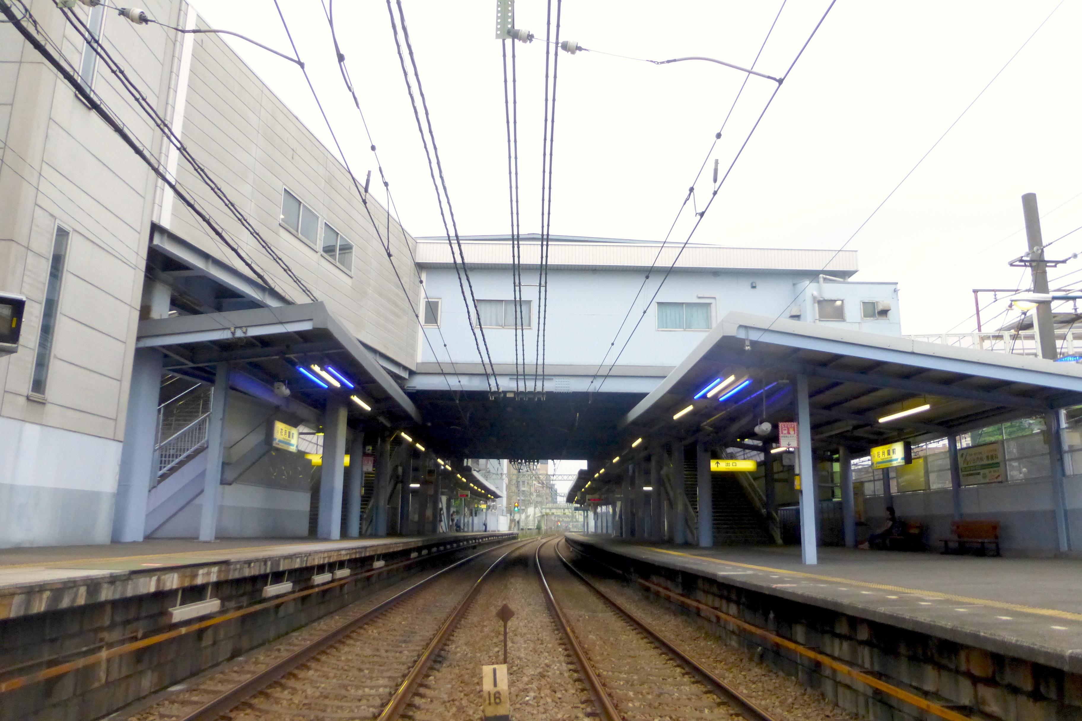 花月園前駅のホーム (Kagestuen-mae Station platforms)